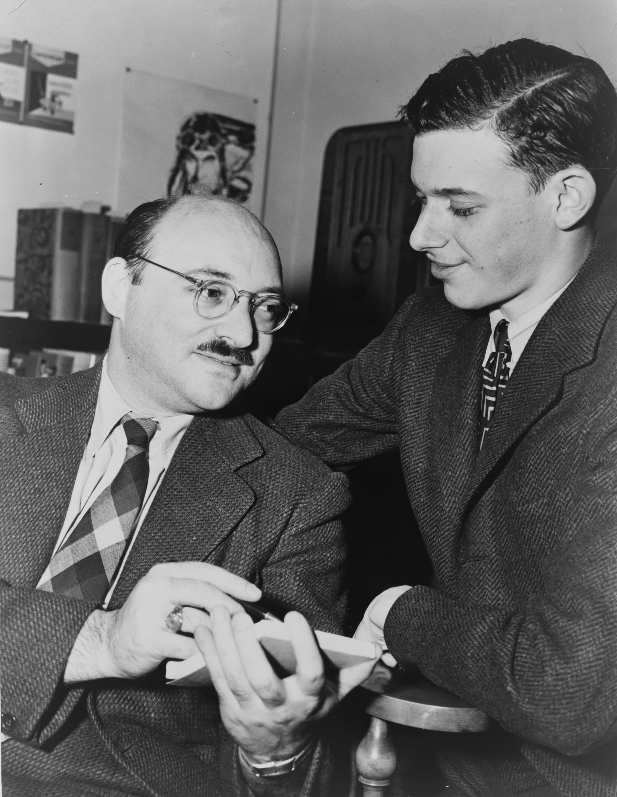 Ellery Queen (left), American mystery writer, and James Yaffe